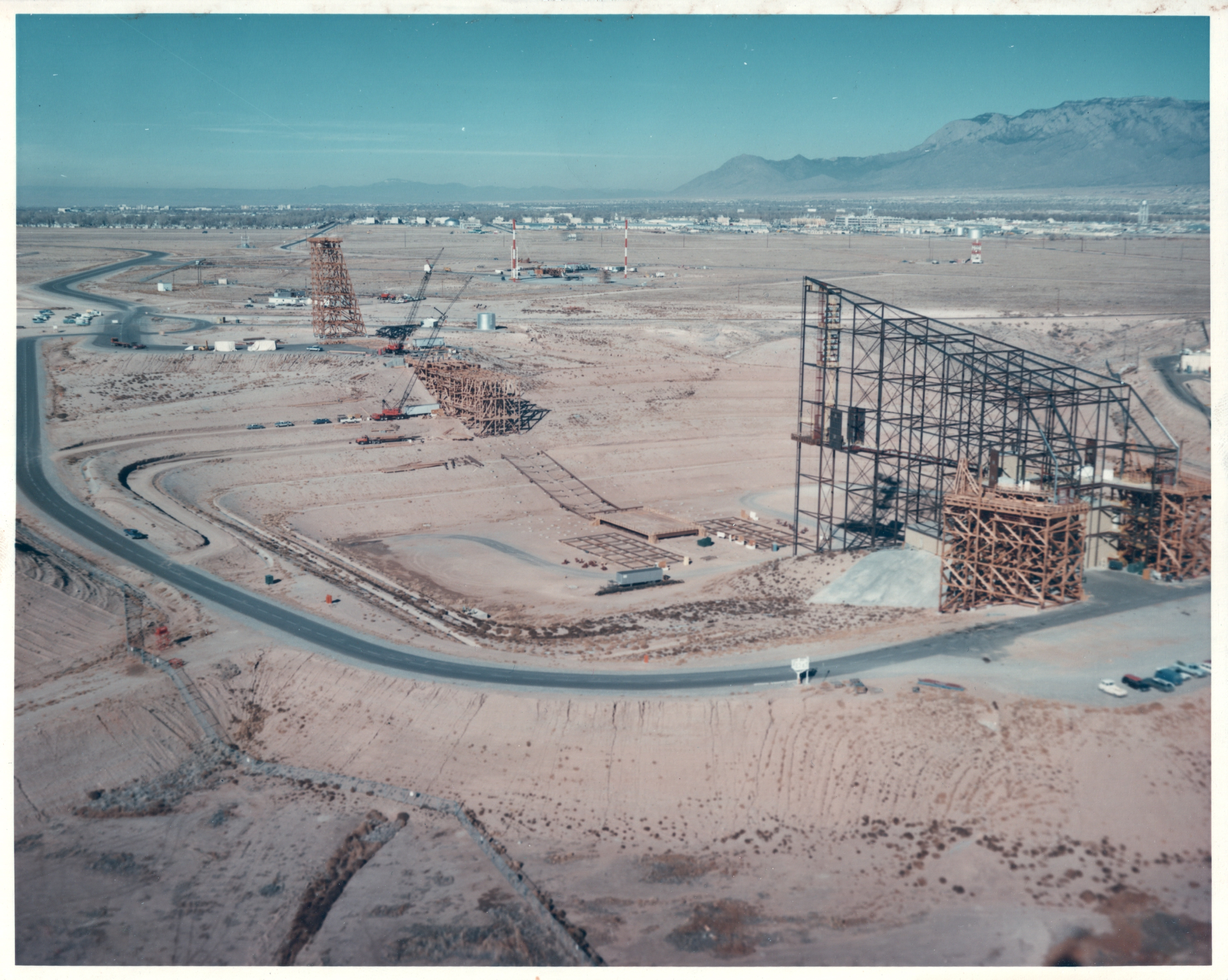 ATLAS-1, TRESTLE facility at Kirtland AFB, NM under construction in 1976.